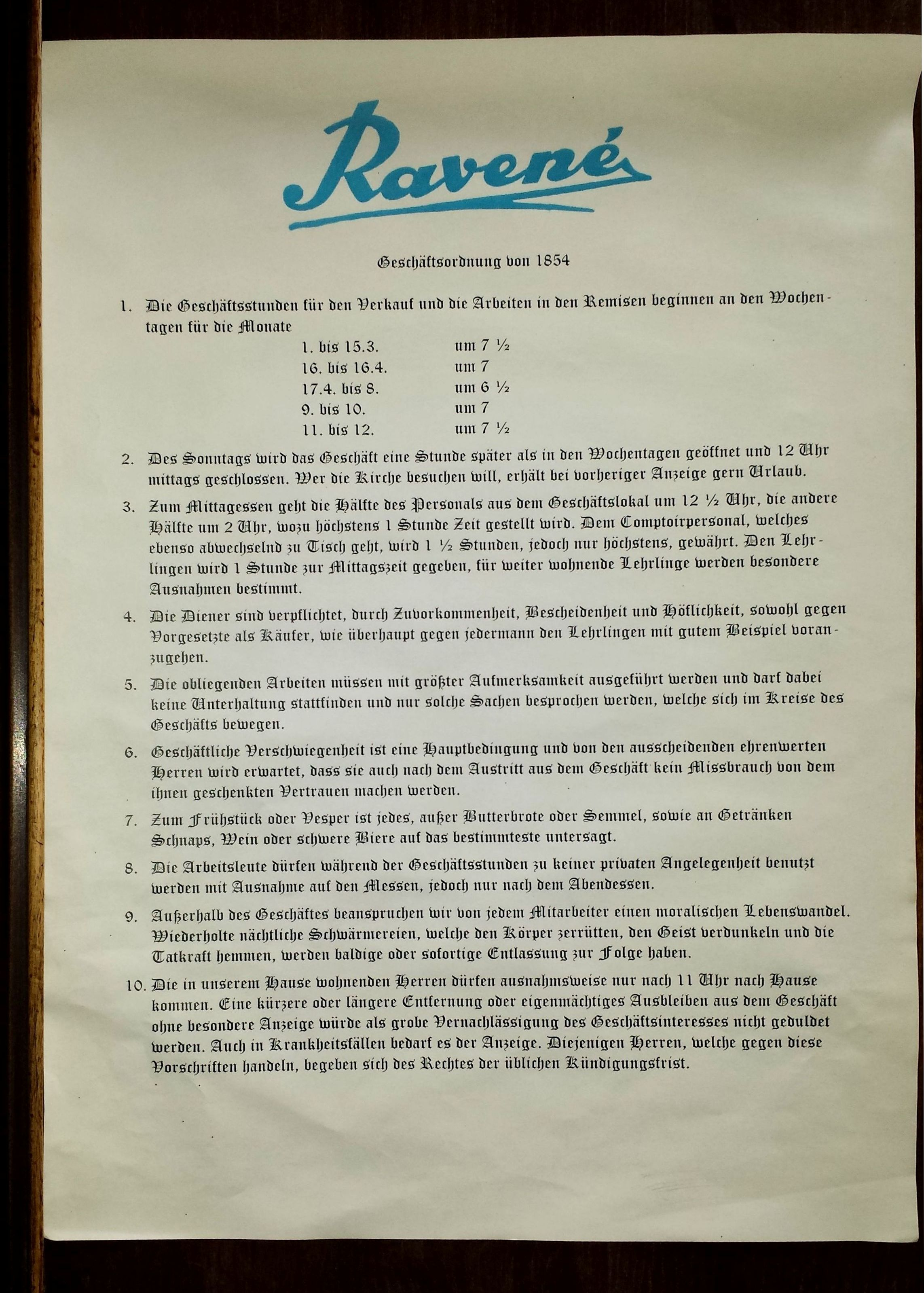 Rules of procedure of the Ravené company from 1854